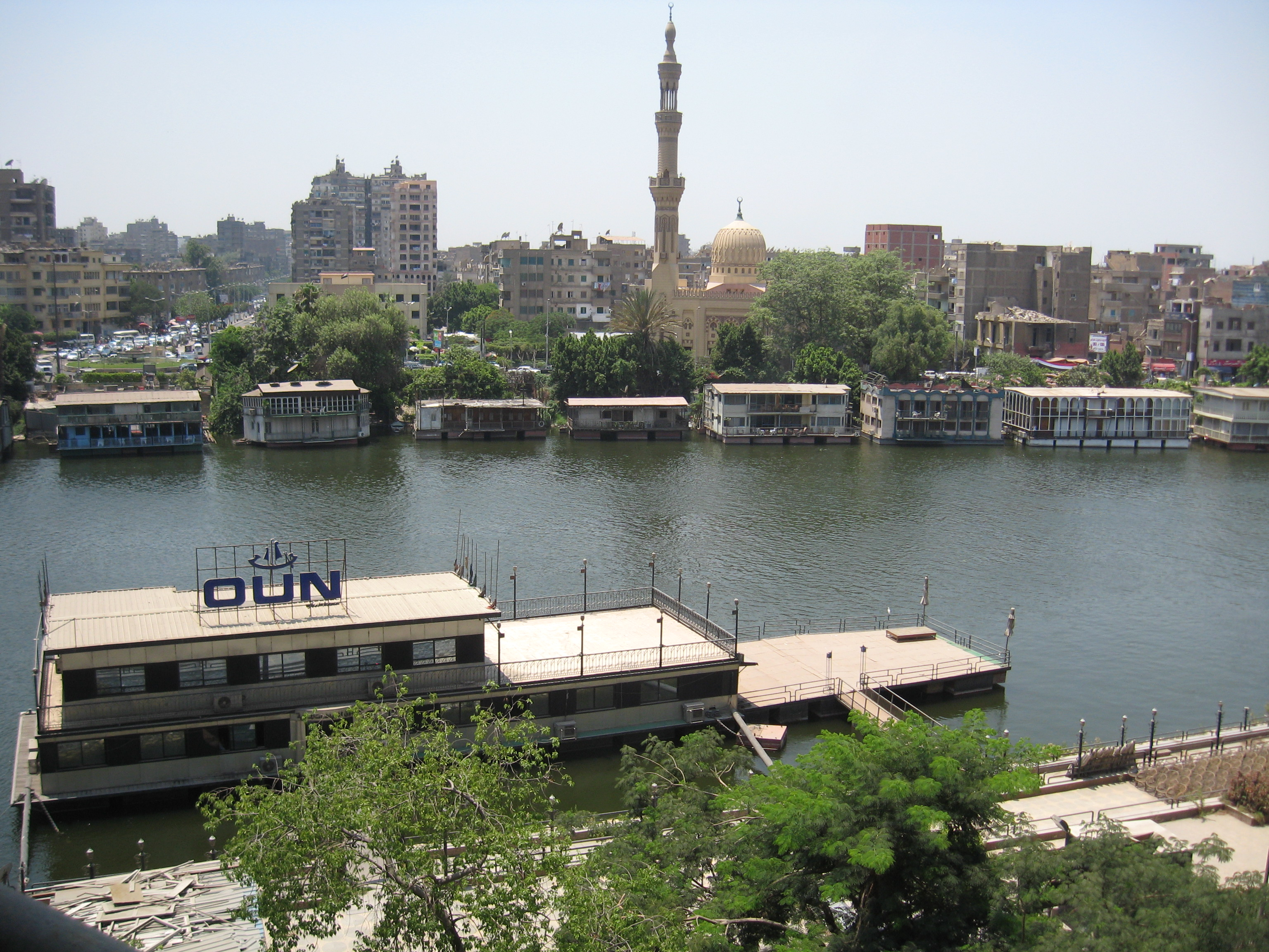 Cairo Nile View.jpg